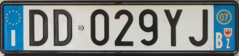 Italian license plate with code of Bolzano.